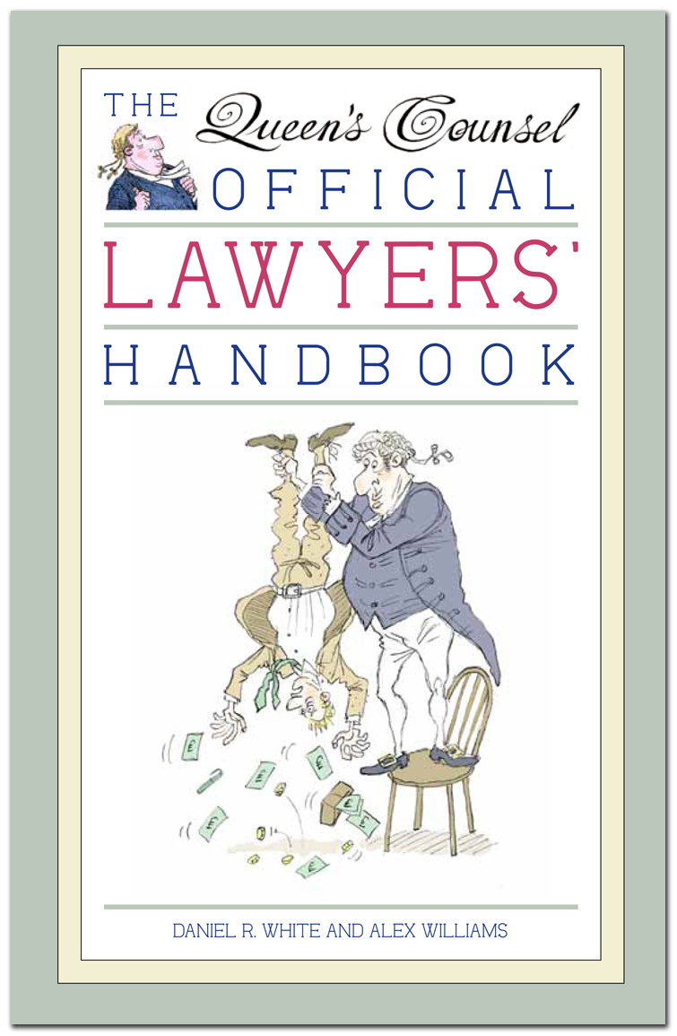 Queen's Counsel Official Lawyers Handbook Book Jacket Front Cover